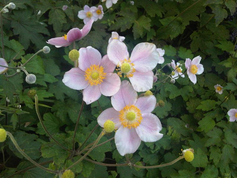 Anemone tomentosa in Kew Gardens, England.